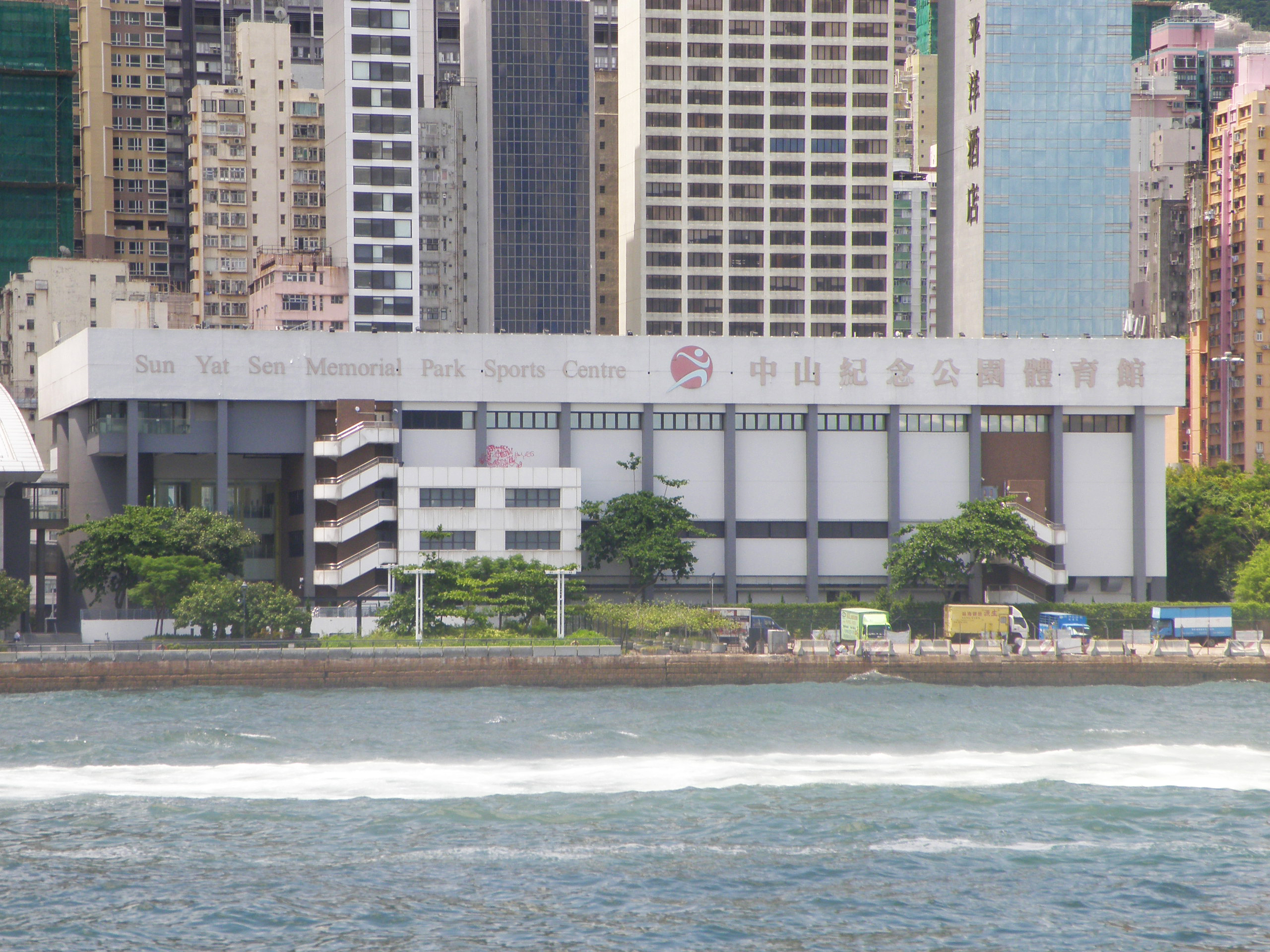 Sun Yat Sen Memorial Park Sports Centre in Sai Ying Pun, Hong Kong.